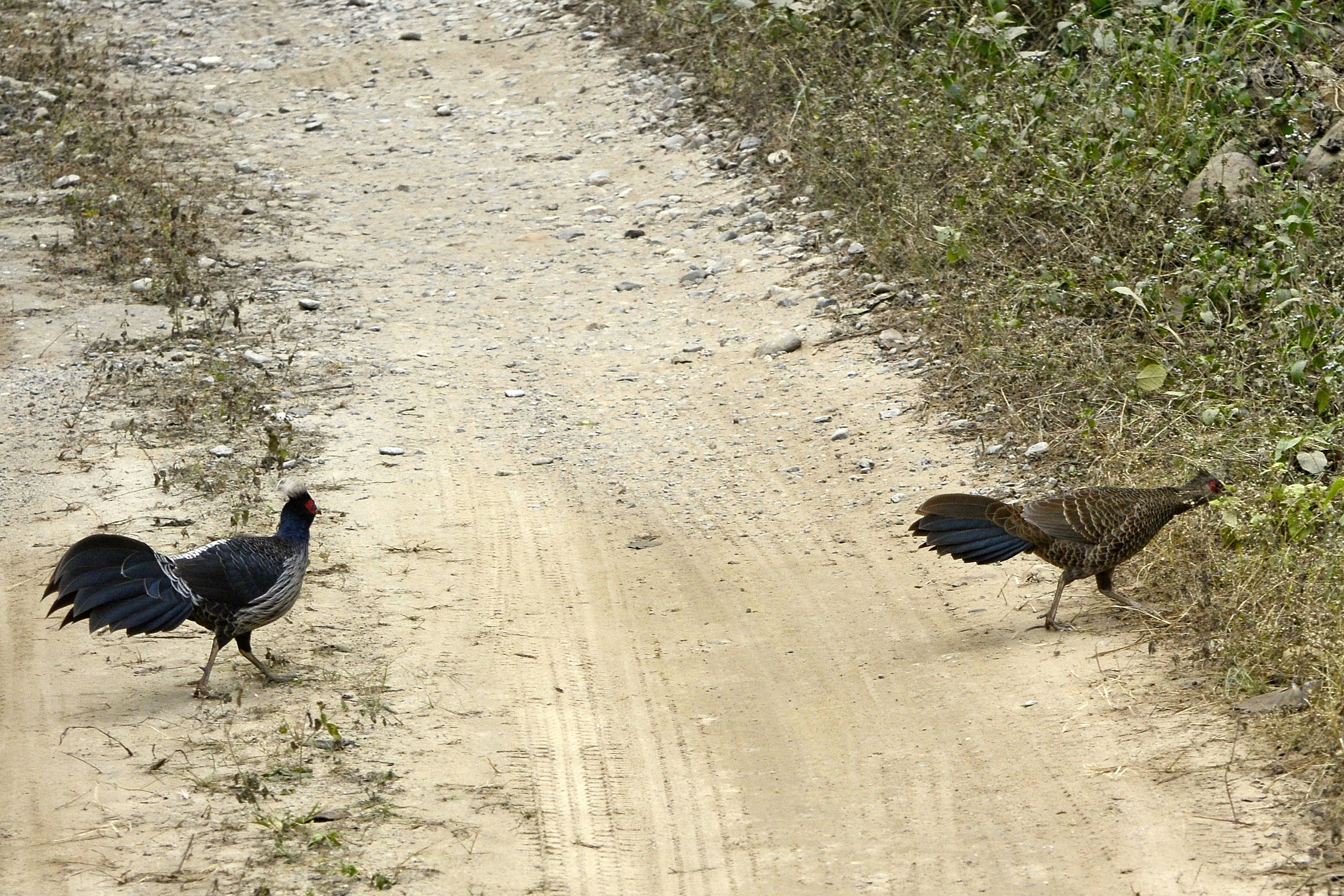 Kalij Pheasant (Male and Female) from Jim Corbett National Park